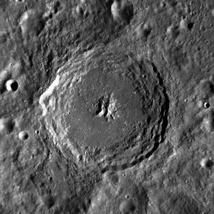 Kovalevskaya lunar crater - LROC image